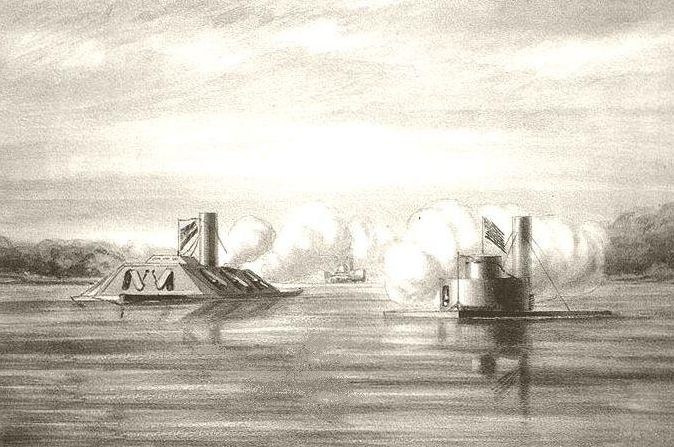 This print depicts the capture of CSS Atlanta (at left) by USS Weehawken, in Wassaw Sound, Georgia, 17 June 1863.